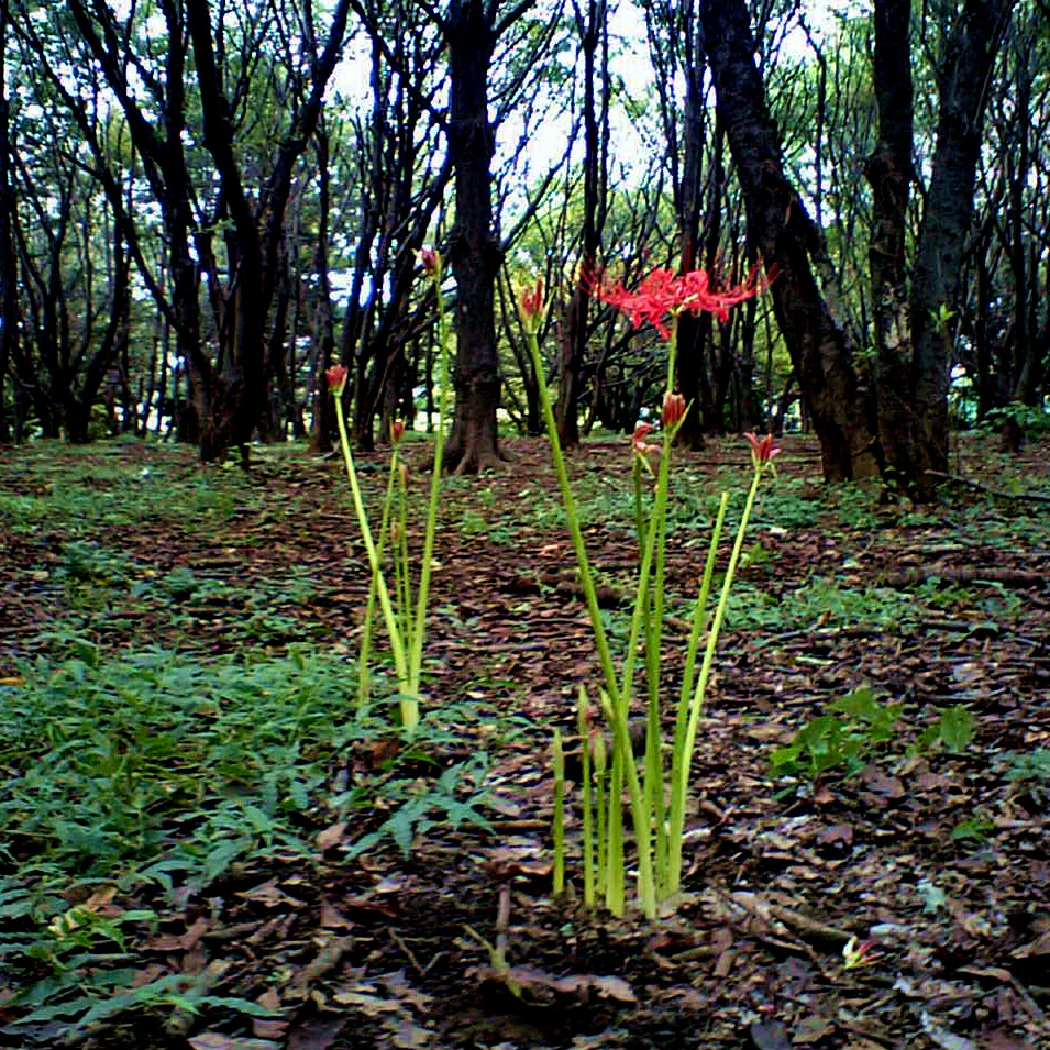 First sighting of higanbana (red spider lily). Taken with phonecam. Blue Lotus